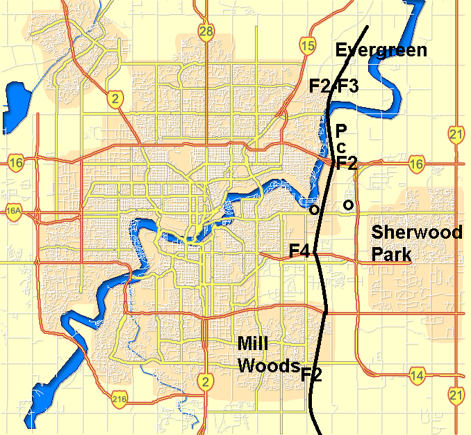 Path taken by the F4 Edmonton tornado in 1987. The F numbers are for the Fujita values, the O is for Imperial Oil Strathcona and Petro-Canada refineries, P is the Edmonton Power Clover power station and C is for the Celanese Canada chemical plant. The image is made using File:Edmonton_street_map.png as the background and data from University of Alberta Atlas of the Edmonton Tornado and Halstorm.